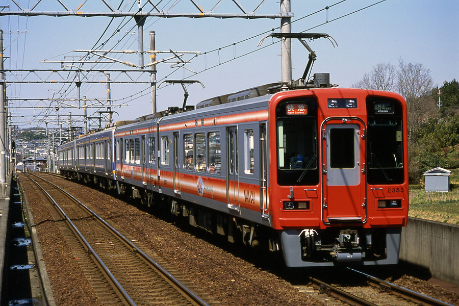 Nankai 2300 series EMU set 2303